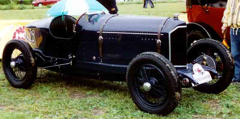 Mathis GM Sports 1923